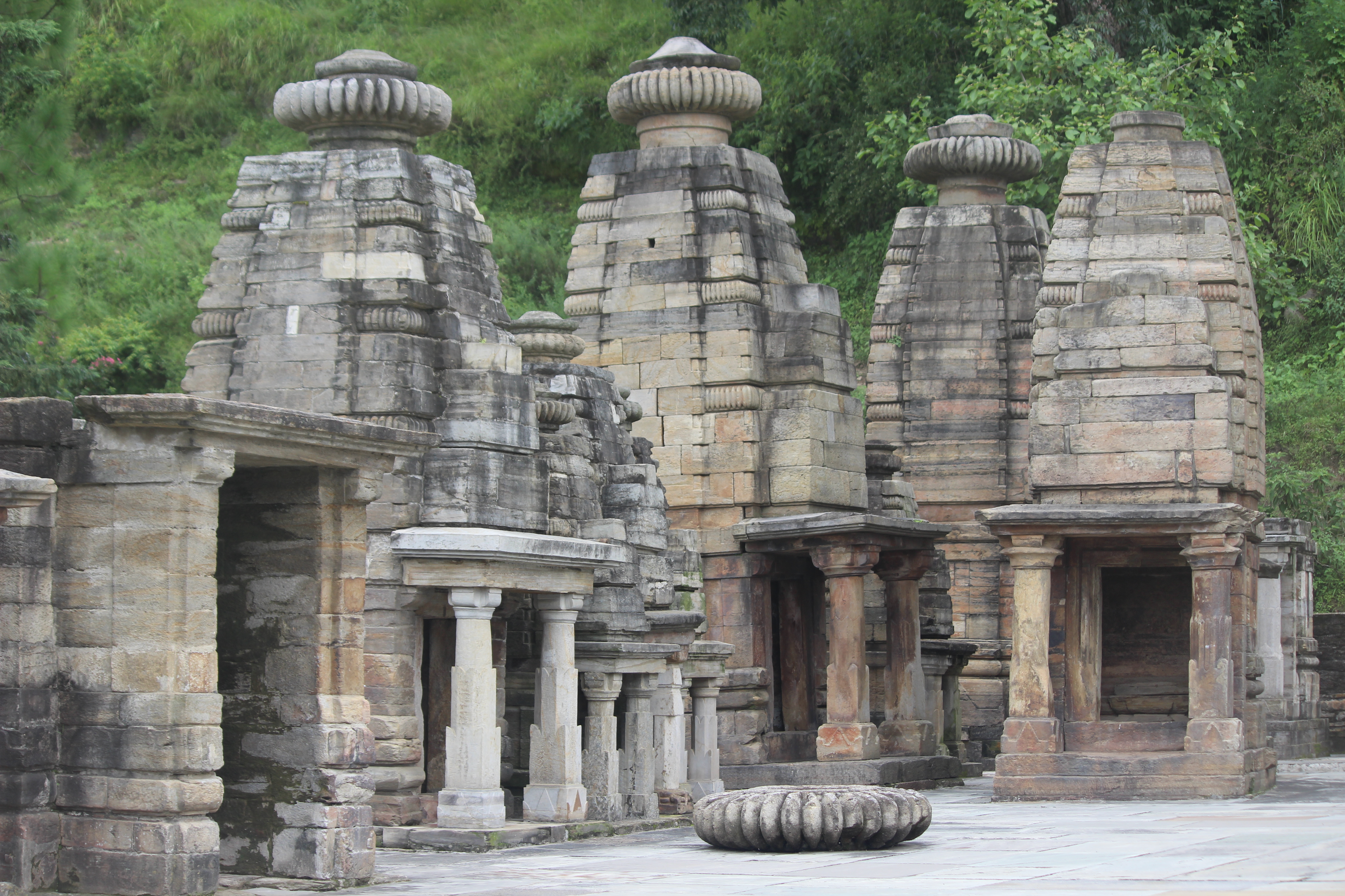 Part of the temple complex of the quaint 9th century Sun Temple located in Katarmal in Uttarakhand, India.